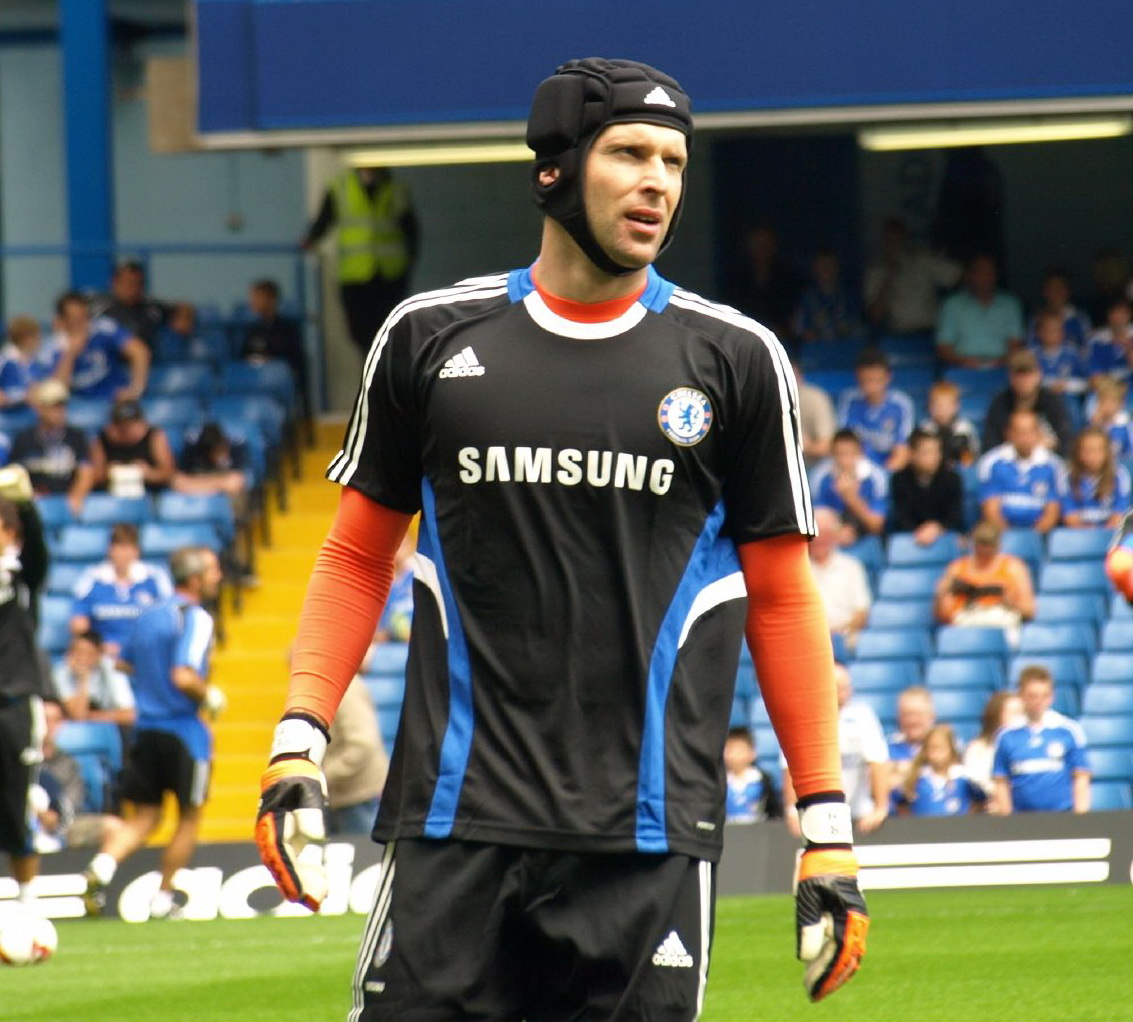 Petr Čech is a Czech international football goalkeeper who is currently contracted to English Premier League football club Chelsea.